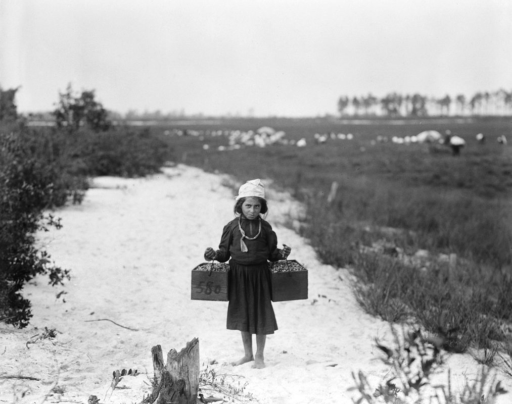 11Rose Biodo, 1216 Annan St., Philadelphia. 10 years old. Working 3 summers. Minds baby and carries berries, two pecks at a time. Whites Bog, Brown Mills, N.J. This is the fourth week of school and the people here expect to remain two weeks more. Witness E. F. Brown. Location: Browns Mills, New Jersey / .